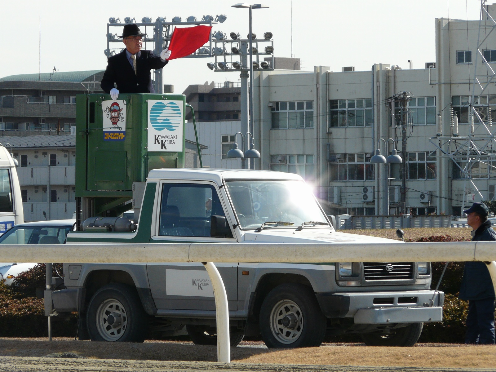 Kawasaki_Racecourse_004